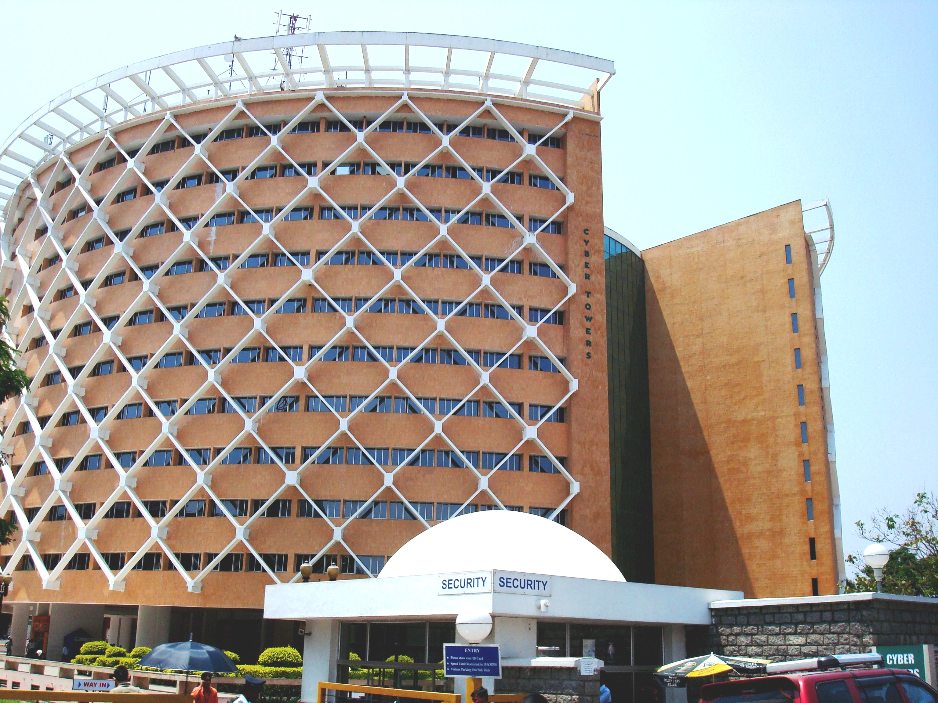 This image shows the Cyber towers at Hitec city, Madhapur, Hyderabad.